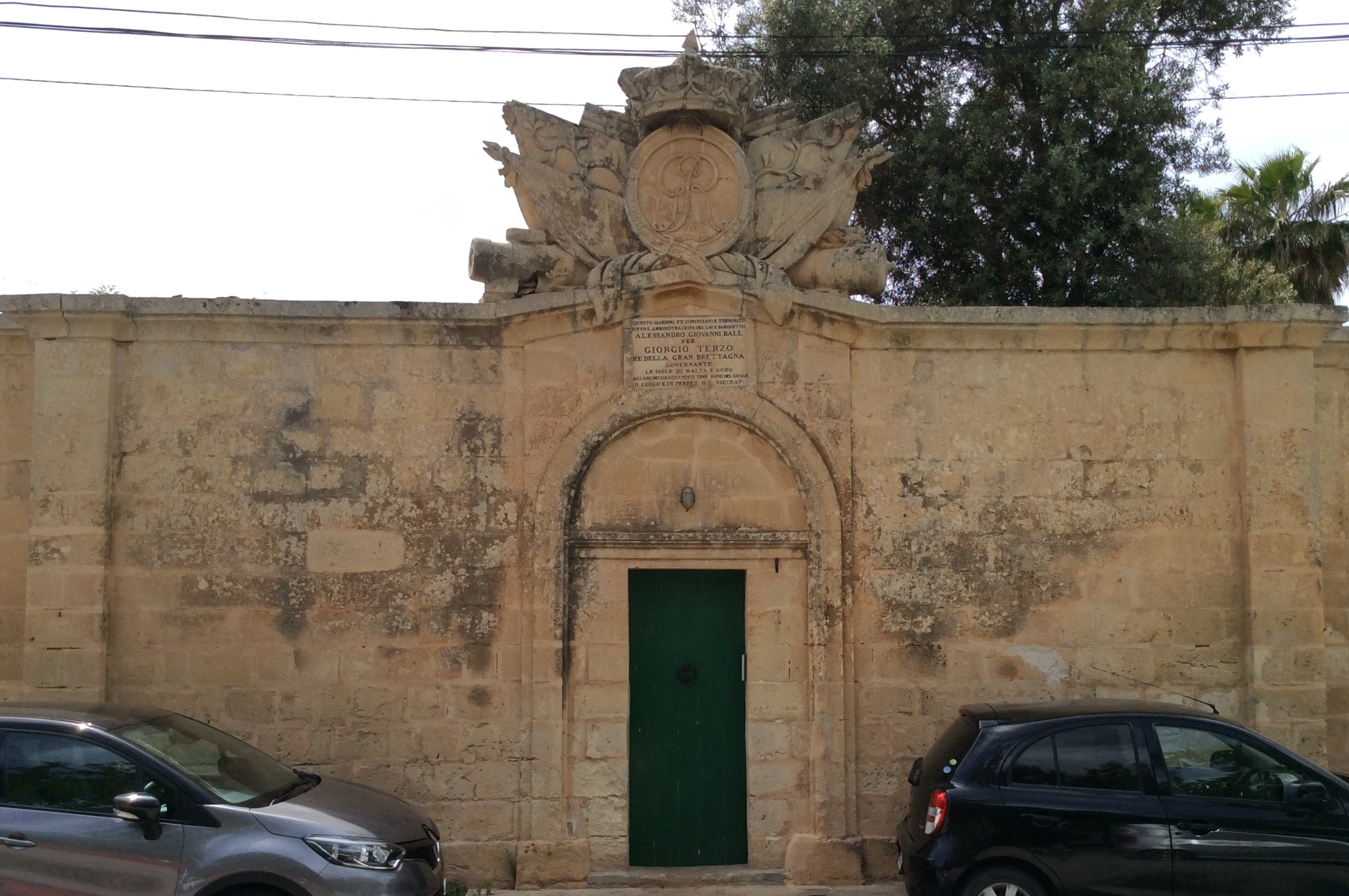 Gnien tal-Kmand, Gudja This media is about Maltese cultural property with inventory number 01167.